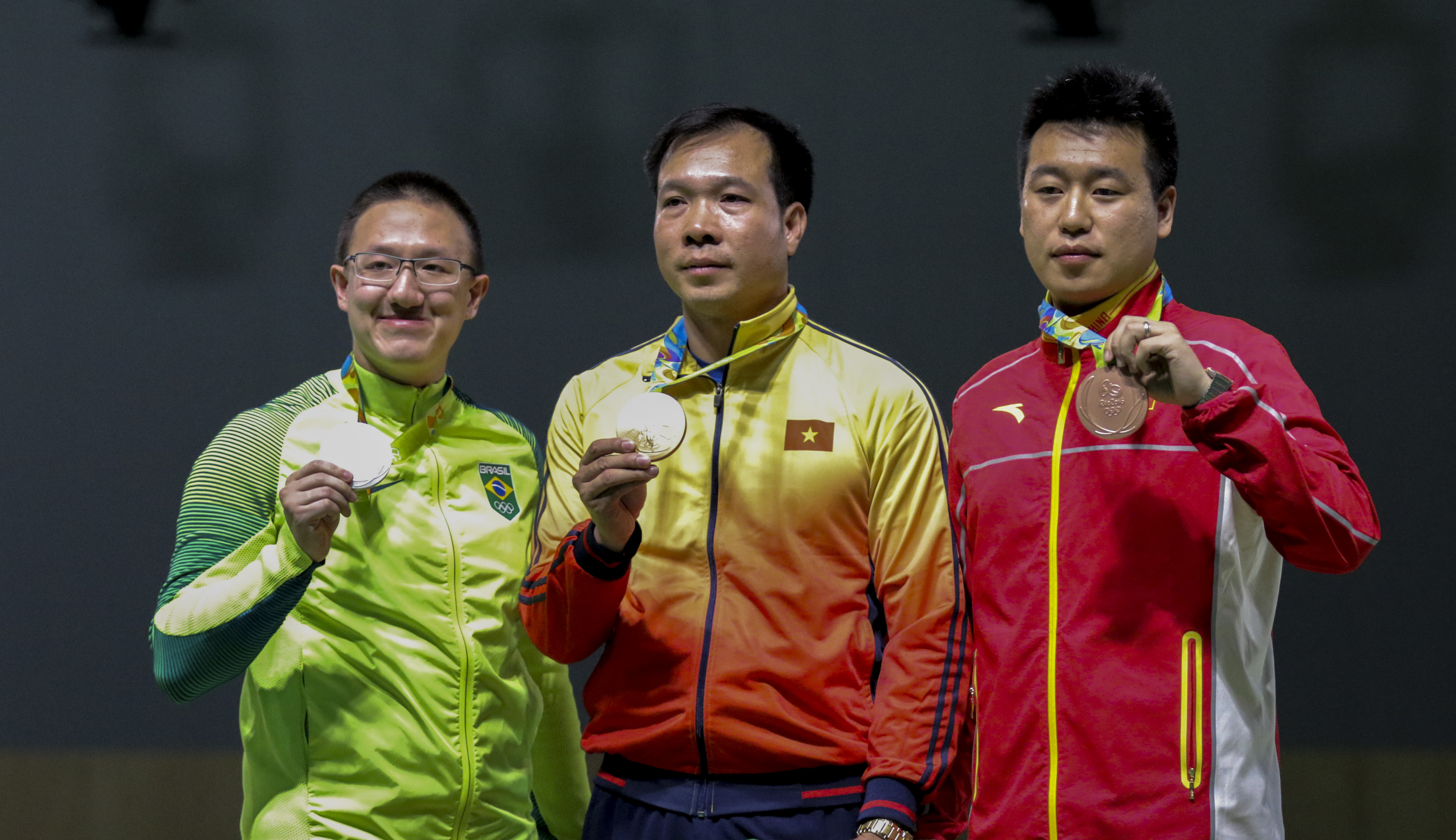 Shooters medalists in 2016 Rio 2016 Olympics